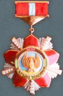 Award of "Gold eagle" ("Алтын қыран") - the maximum award of Republic Kazakhstan. Special klass an award.